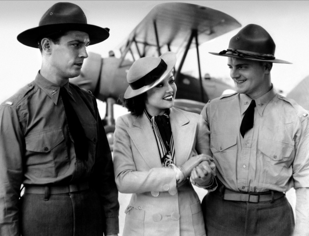 L. to R. : Edward J. Nugent, June Collyer, and William Cagney in Lost in the Stratosphere (1934) - cropped screenshot.